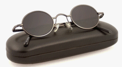 Tea shades